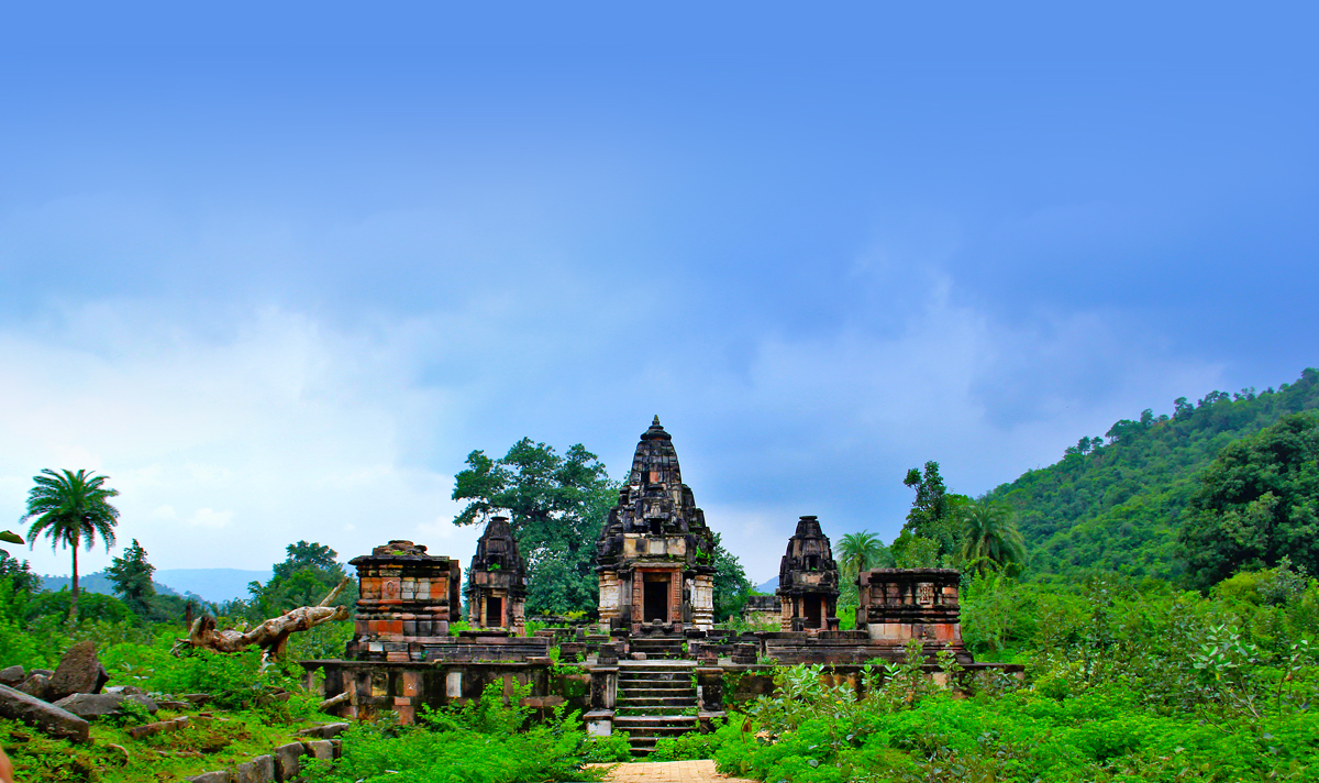 The ancient Polo city was built around the river Harnav, an ancient water body spoken of in the Puranas. It is believed to have been established in the 10th century by the Parihar kings of Idar, and was then conquered in the 15th century by the Rathod Rajputs of Marwar. The name is derived from pol, the Marwari word for "gate," signifying its status as a gateway between Gujarat and Rajasthan. It was built between Kalaliyo in the east, the highest peak in the area, and Mamrehchi in the west, considered sacred by the local adivasis. Together they block sunlight for most of the day, which might provide an explanation for the otherwise mysterious abandonment of the ancient city. The 400 square km area of dry mixed deciduous forest is most lush between September and December after the monsoon rains when the rivers are full, but at any time of the year it provides a rich wildlife experience. There are more than 450 species of medicinal plants, around 275 of birds, 30 of mammals, and 32 of reptiles. There are bears, panthers, leopards, hyenas, water fowl, raptors, passerines, and flying squirrels (mostly heard, rarely seen), all living under a canopy of diverse plants and trees. During winter, all manner of migratory birds occupy the forest; during the rainy season there are wetland birds. Until recently, this area was not well-known, and saw very few visitors. The numbers have increased dramatically in the last few years, thanks to a few individuals working to promote its beauty. This increased flow comes with a price, however. It is important to remember, as visitors, to approach each destination and its inhabitants, human or otherwise, humbly, openly, and with the awareness that every interaction, no matter how slight, carries its own impact on the area whether we know it or not.